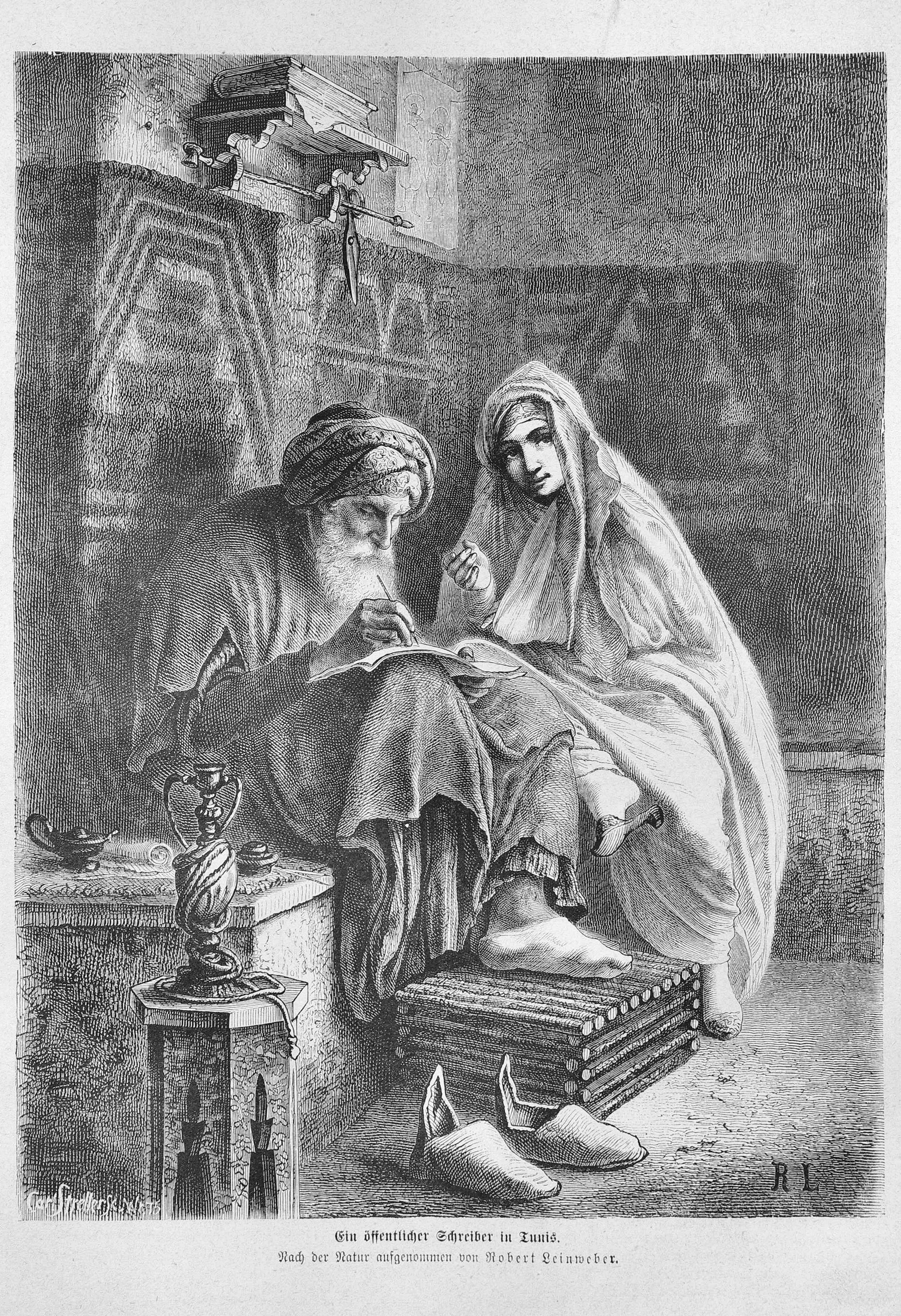 caption: "Ein öffentlicher Schreiber in Tunis. Nach der Natur aufgenommen von Robert Leinweber."